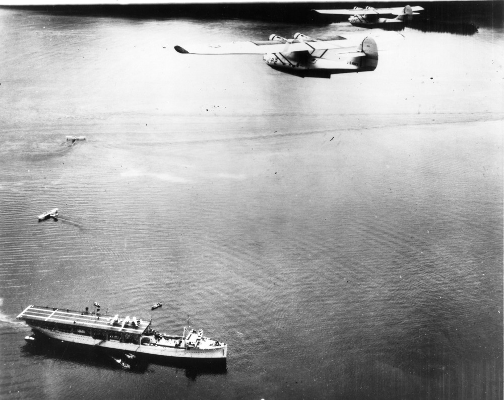 PictionID:41553944 - Title:Consolidated PBY-1 VP-12 12-P-2 Alaska c37-38 USN - Catalog:16_000529 - Filename:16_000529.tif - - - - - - Image from the Ray Wagner Collection. Ray Wagner was Archivist at the San Diego Air and Space Museum for several years and is an author of several books on aviation --- ---Please Tag these images so that the information can be permanently stored with the digital file.---Repository: San Diego Air and Space Museum